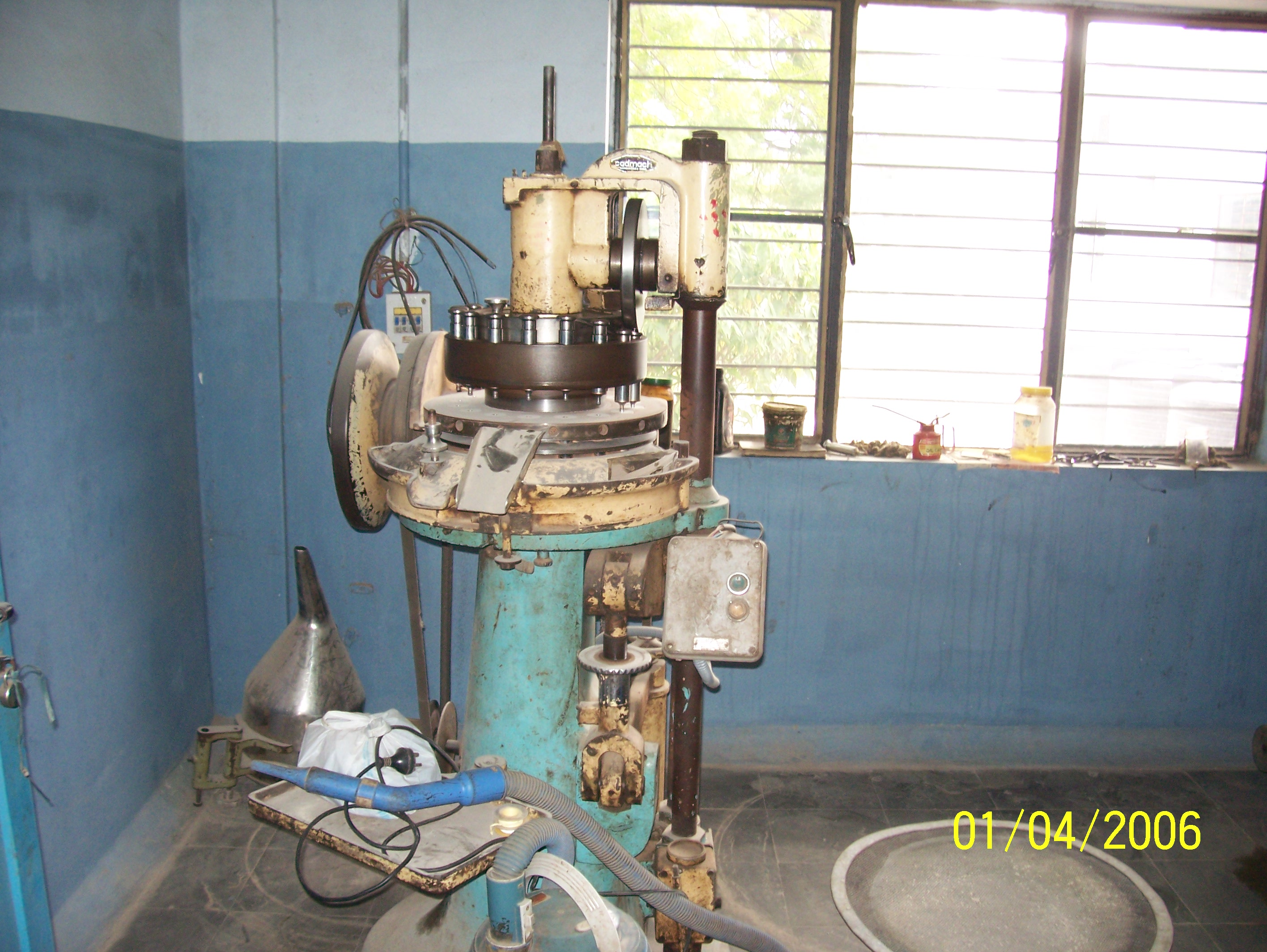 machine in the pharmci, imjapur